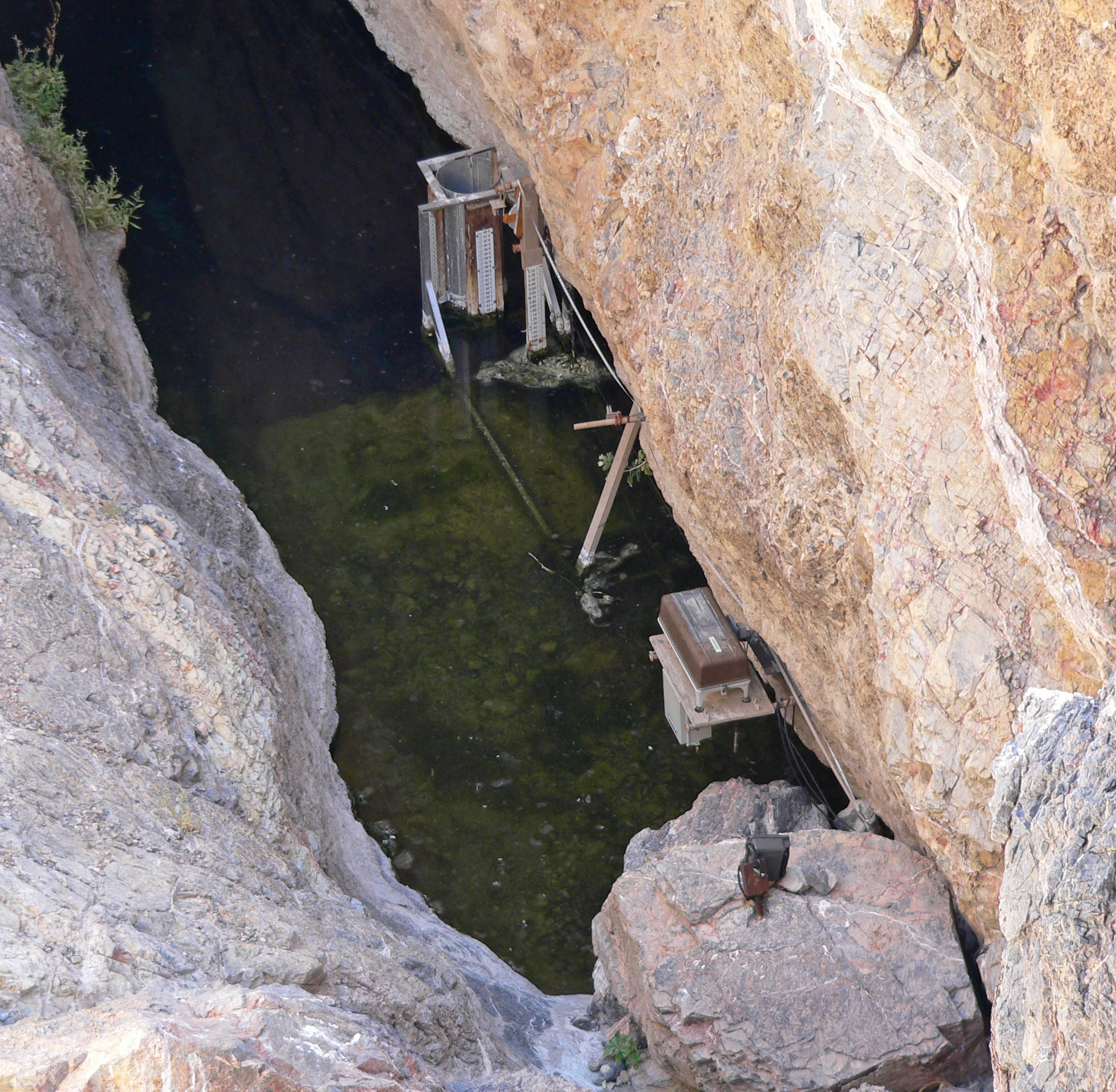 Devils Hole, Death Valley National Park, southern Nevada